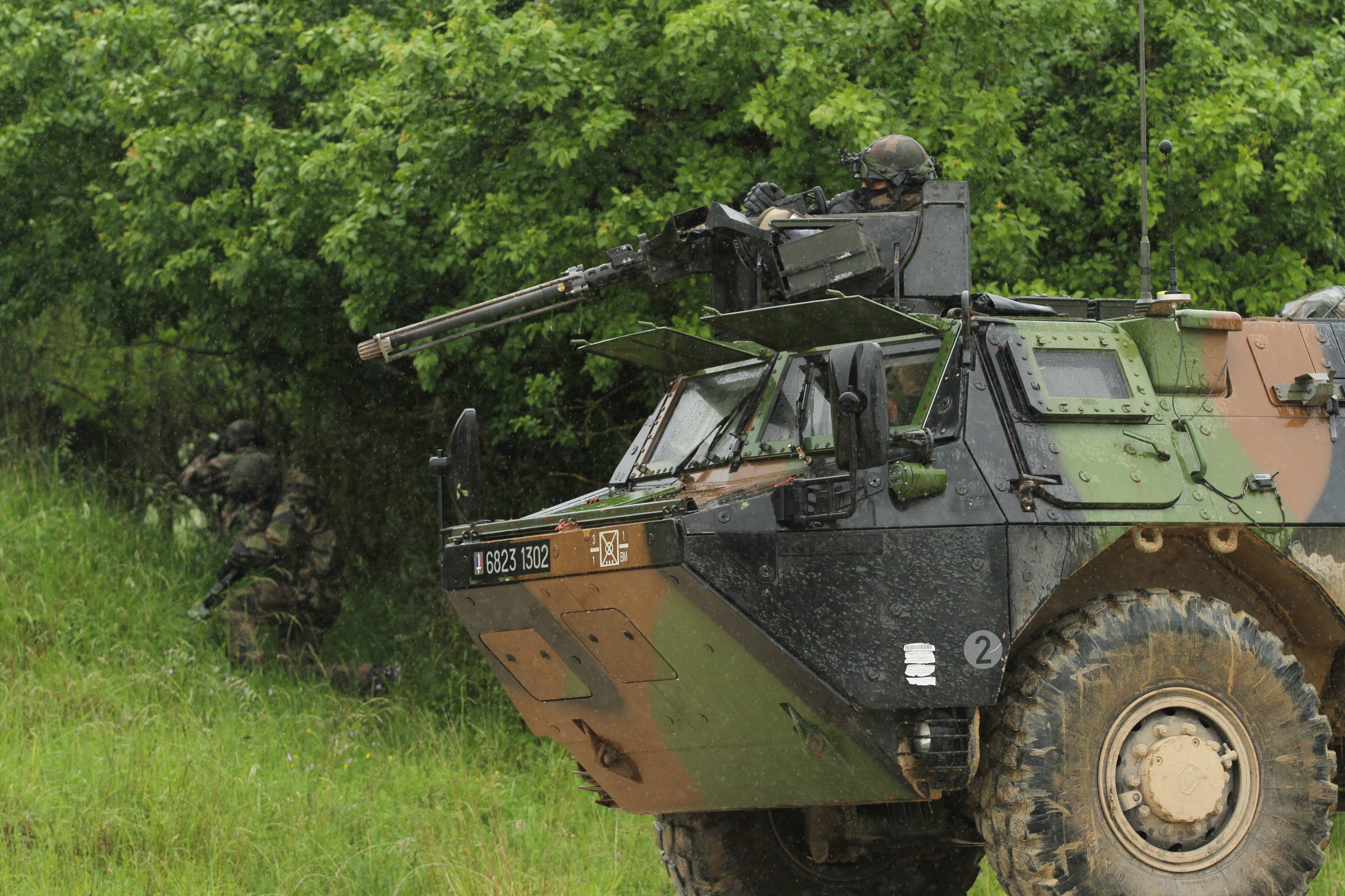 French infantrymen shoot and move during a firefight with opposing forces at the Hohenfels Training area during the multi-national training exercise, Combined Resolve II.